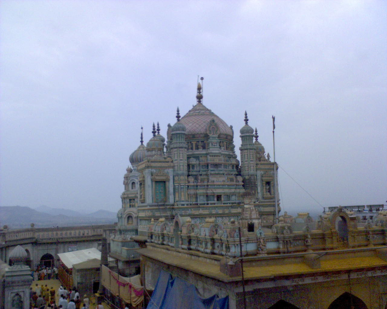 Jejuri Temple,jejuri, Pune